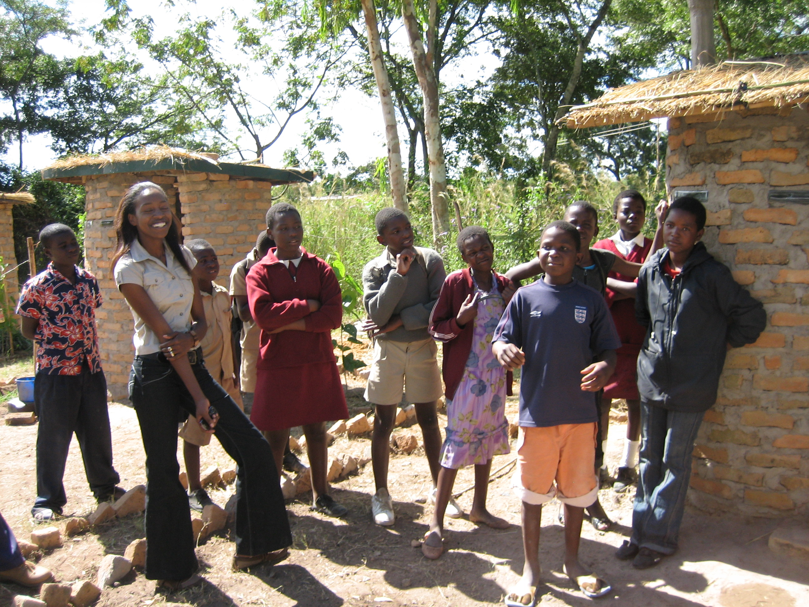 School open day at Chisungu. Annie and the pupils present their work to visitors. Photo by: Peter Morgan in April 2009, Chisungu.